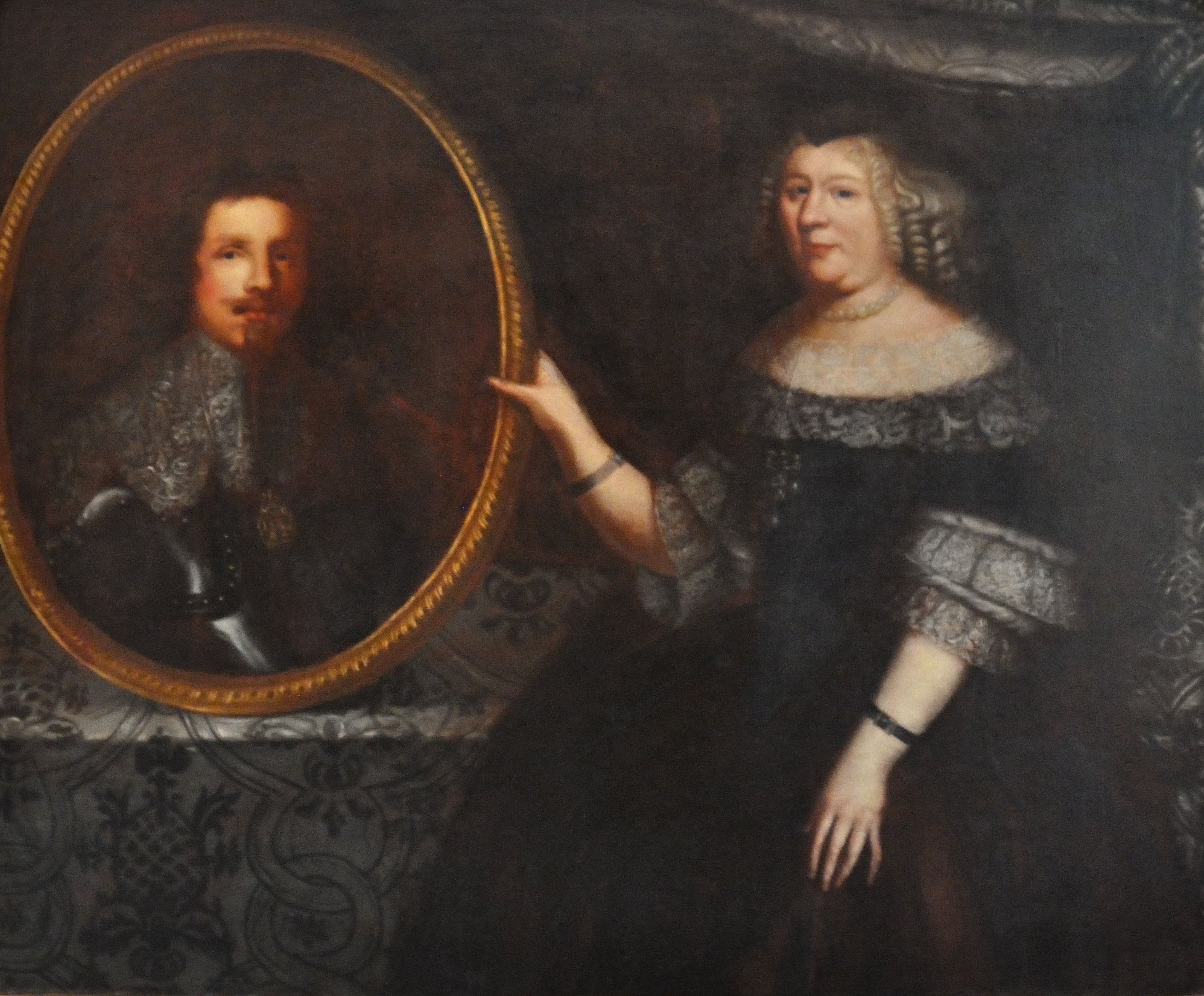 Marie de Bourbon, Countess of Soissons (1606-1692), with a portrait of her deceased husband, Thomas Francis, Prince of Carignano